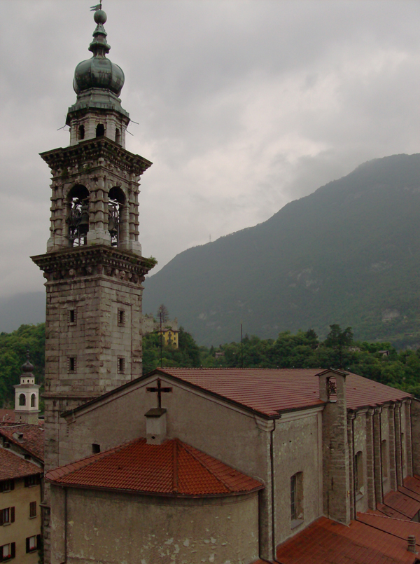 Dome - Church of Trasfigurazione di Nostro Signore Gesù Cristo. Breno, Val Camonica